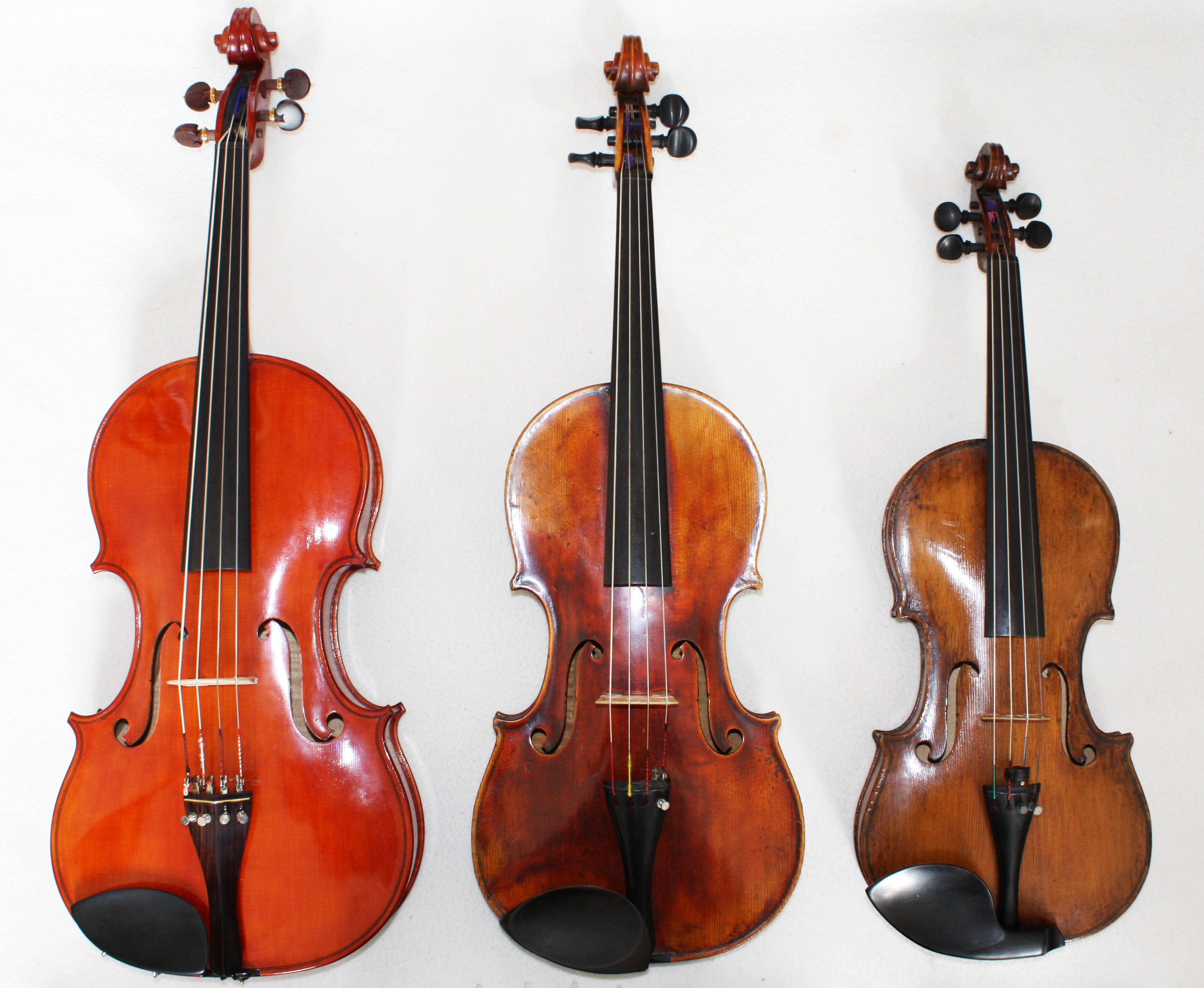 Comparison of Viola Profonda, Viola and Violin